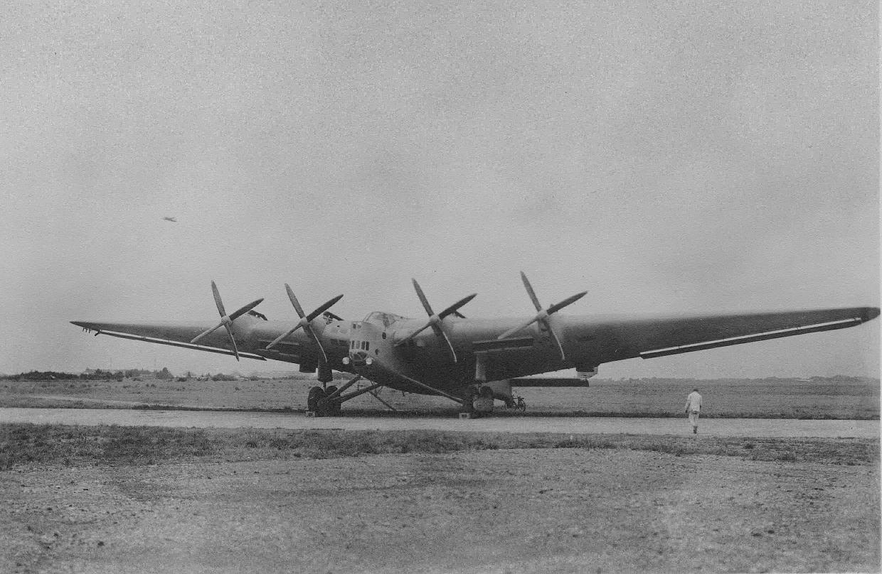 Mitsubishi Ki-20 heavy bomber at Hamamatsu Air Base.